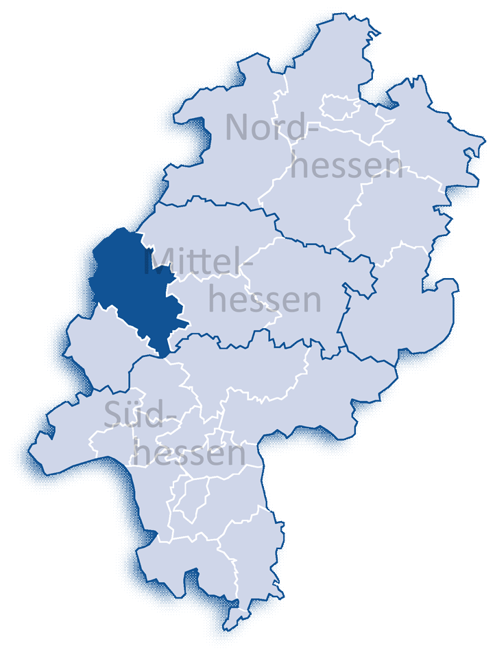 The map shows the district Lahn-Dill-Kreis. A district in Hesse